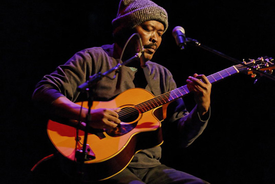 Shot during a concert in British Colombia, while on tour with the International Guitar Night ensemble